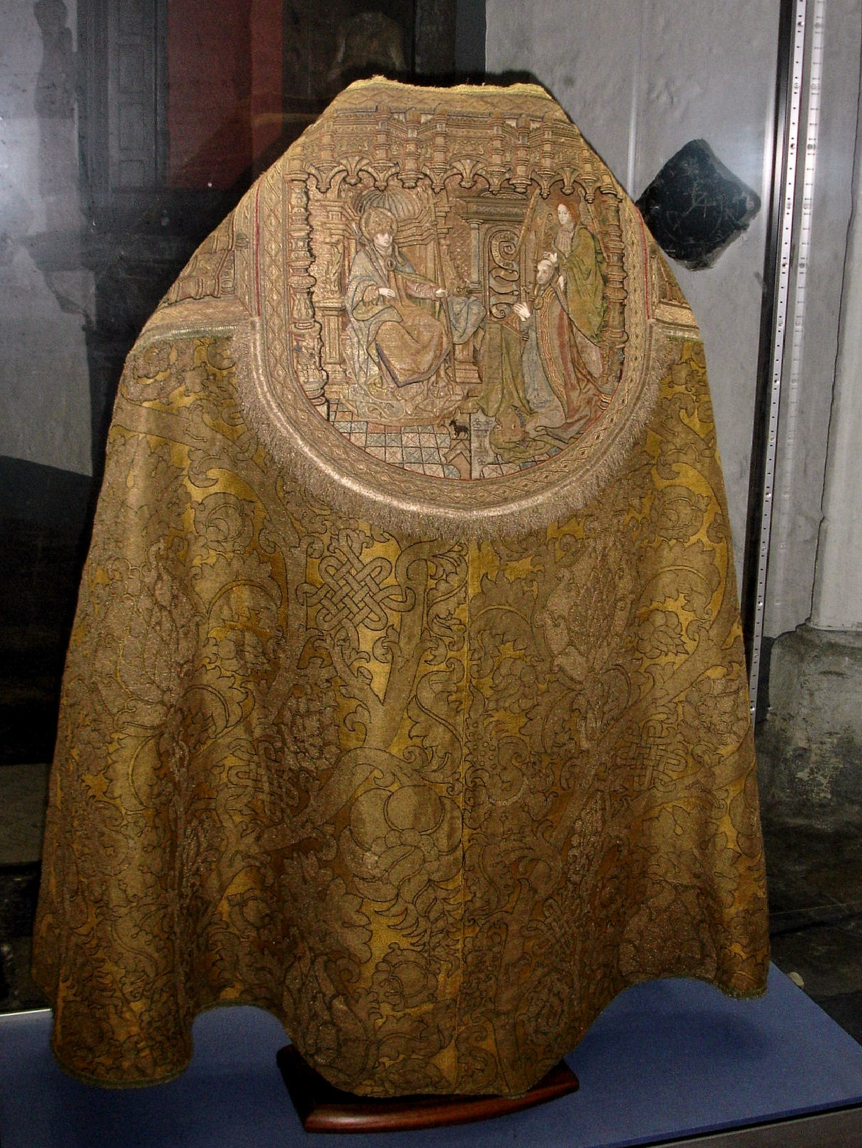 own picture taken on 5 nov,Sint-Baafskathedraal gent (en: 15th century embroidered cope, St-Baaf's Cathedral, Ghent)